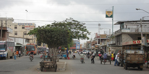 Huaquillas, El Oro, Ecuador. Taken by author on December 30, 2007.